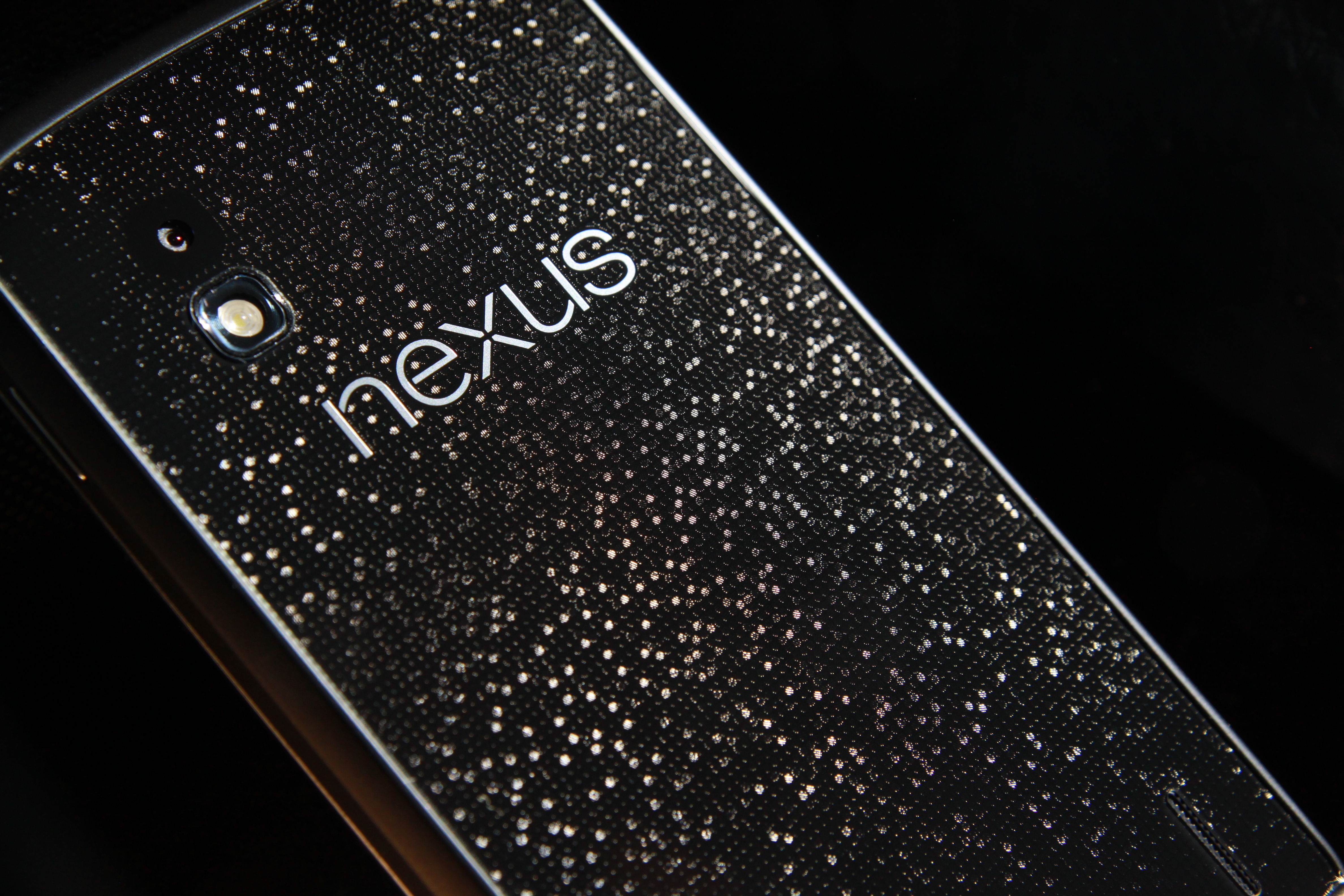 Glitter effect seen on the back side of the Nexus 4 smartphone.